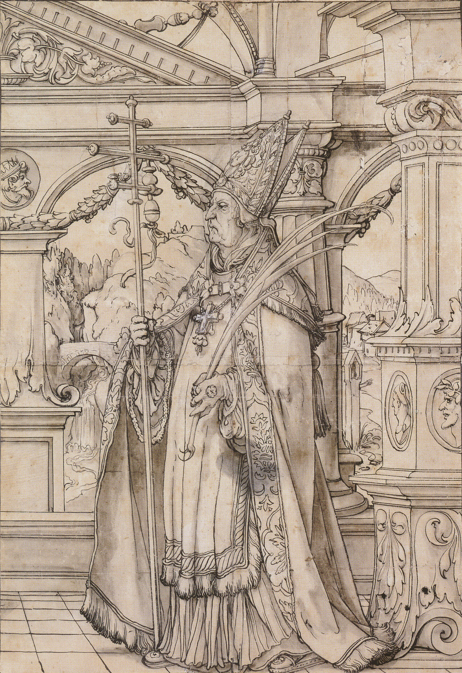 St Pantalus under a Renaissance Portico, design for a stained glass window. Pen and ink and brush over preliminary chalk drawing, grey wash, 54.1 × 37.2 cm, Kunstmuseum Basel. St Pantalus was the legendary first bishop of Basel. According to tradition, he was martyred with St Ursula and her followers at Cologne. He holds a palm frond, symbolising his martyrdom (Müller, 228). Holbein later incorporated St Pantalus in a design for the organ shutters of Basel Cathedral.